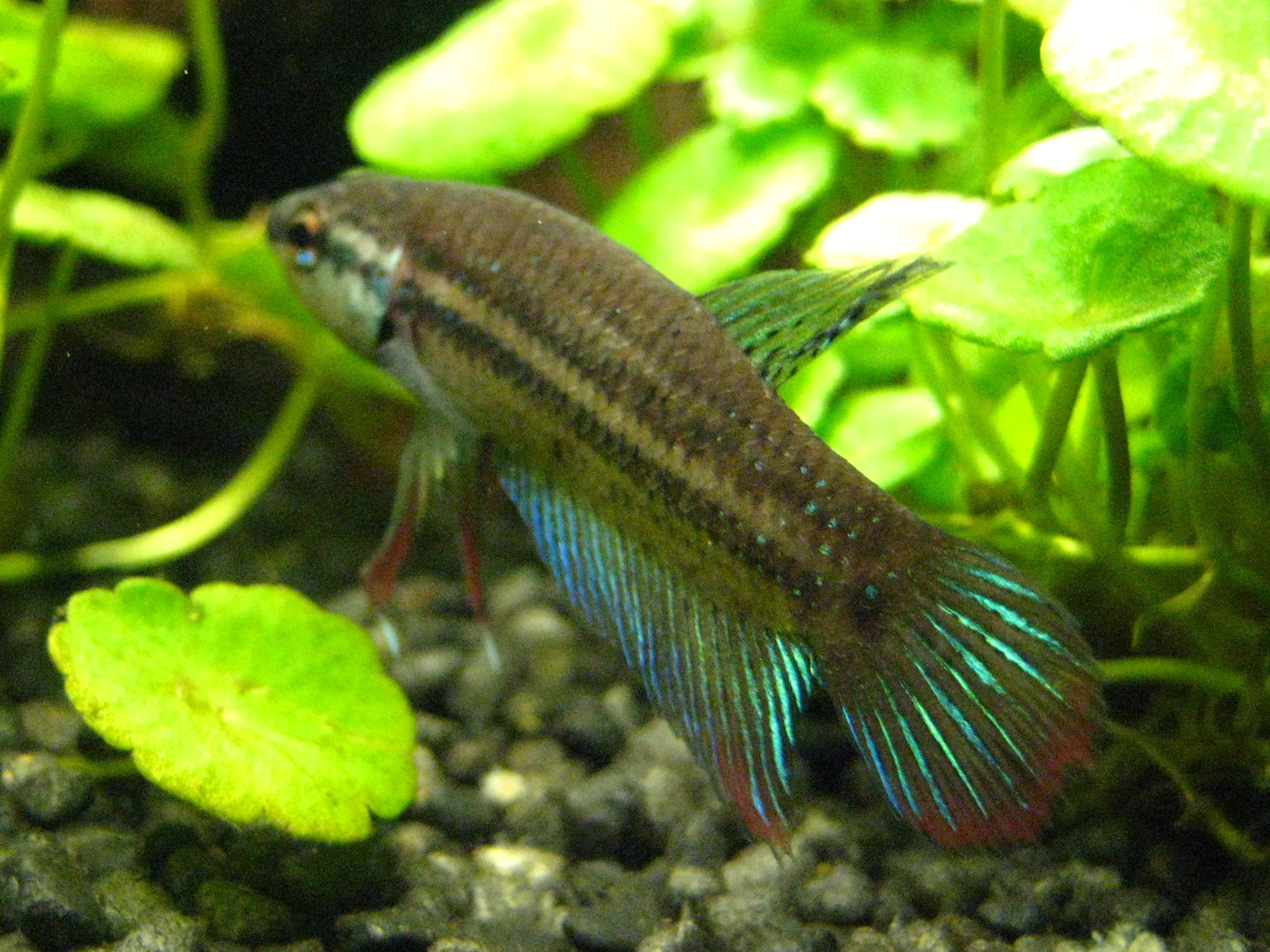 Betta imbellis (male)